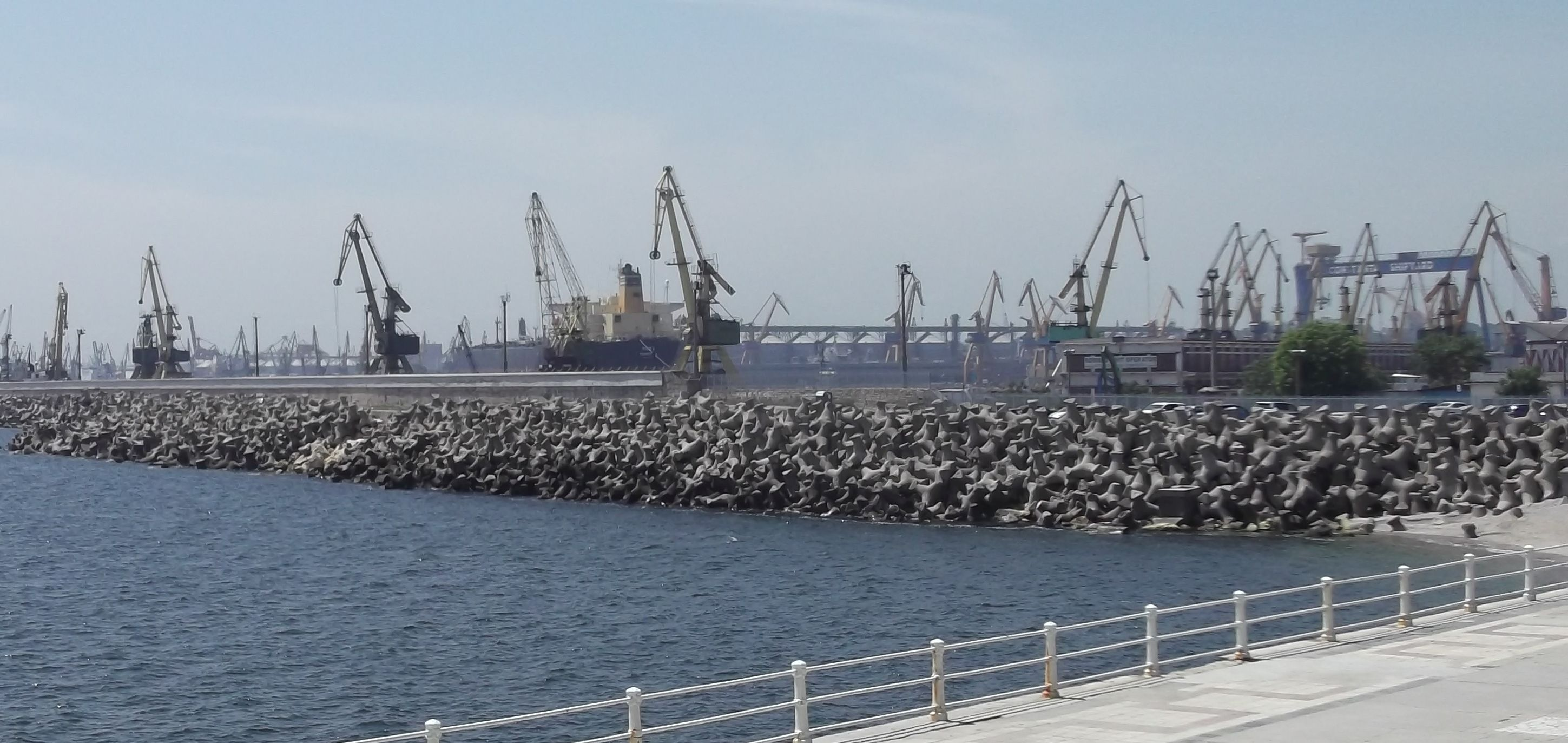 Protection dam of the Constanța Harbor